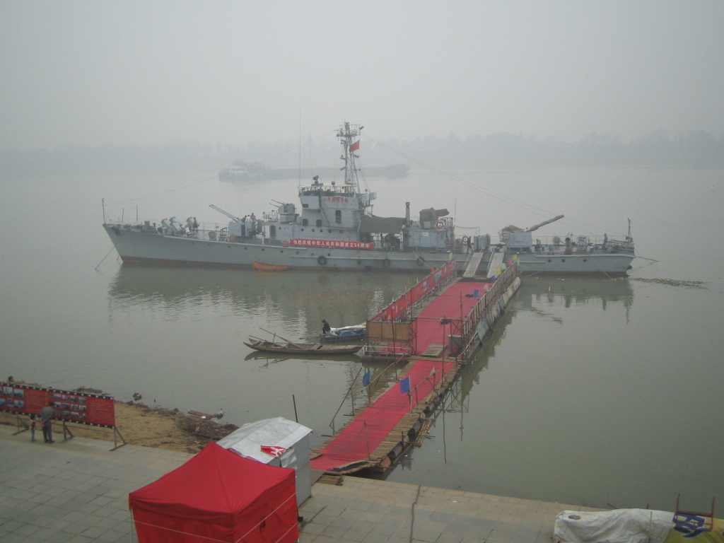 Chinese Hainan class(?) patrol vessel. According to the uploaders caption, the boat is "on the Xiang River in Changsha, Hunan, during the "Southern Inspection Tour" of Deng Xiaoping". However, the slogan on the boat seems to mention the 50th anniversary of PRC (1999) (hard to read, though), and the camera's EXIF metadata give 2005 as the time when the photo was made. I don't know what to make out of this.